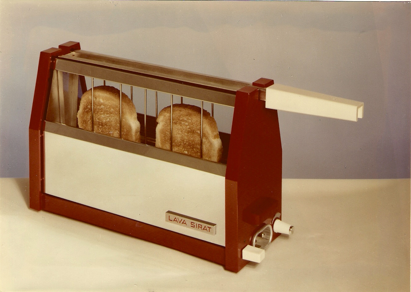 "Lava Sirat" (Sicht-Rapid-Toaster / View-Rapid-Toaster) by Eberhard Päßler. A toaster with two ceramic heating tubes, two viewing windows made of glass, a basket for the bread and a crumb tray.